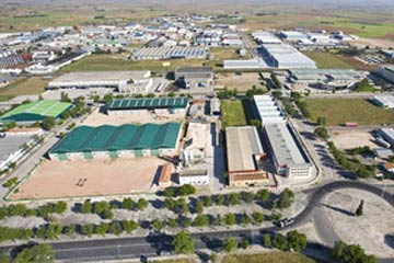 Poligono Industrial Manzanares